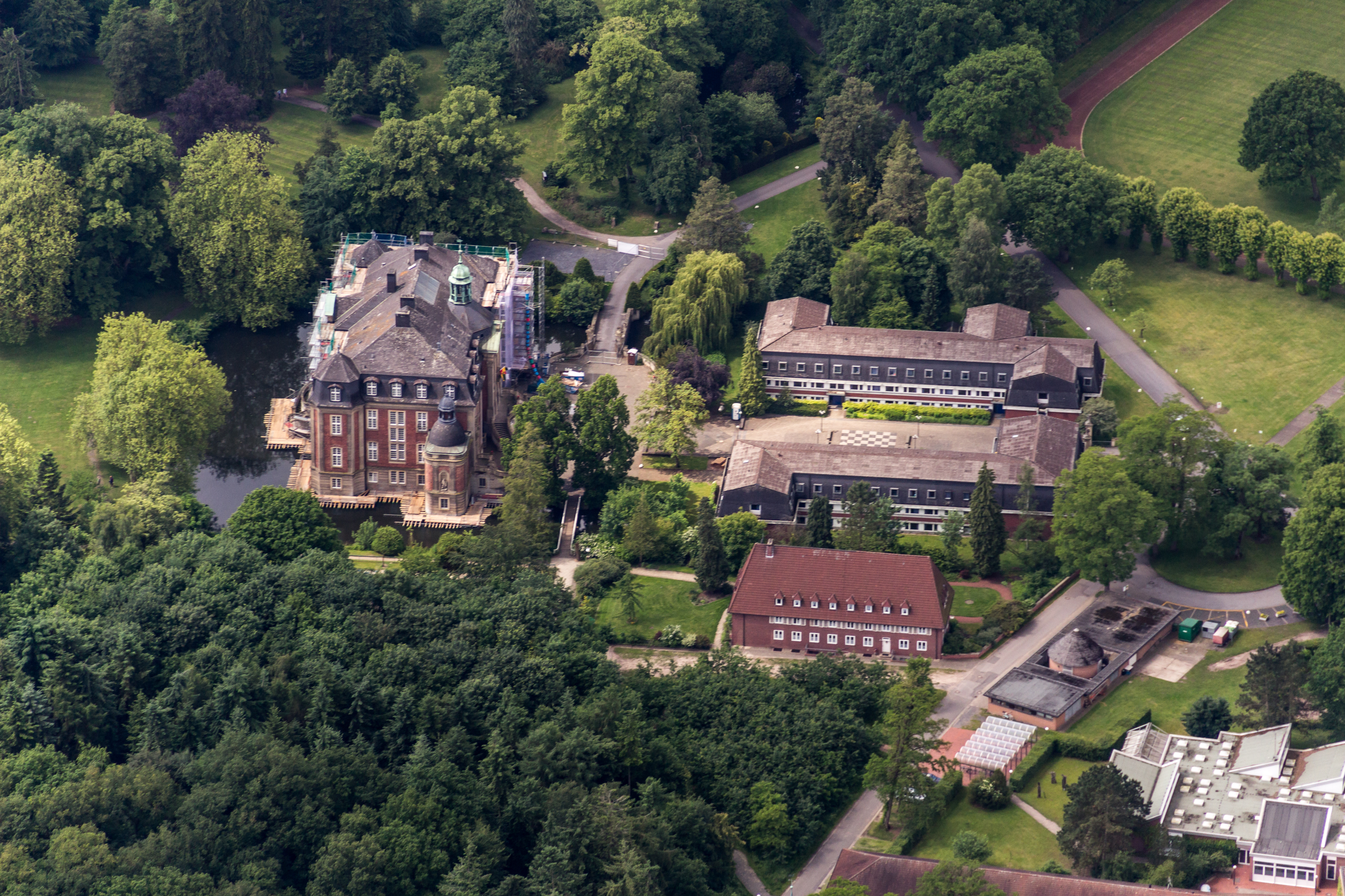 Loburg Castle, Ostbevern, North Rhine-Westphalia, Germany This image shows a heritage building in Germany, located in the North Rhine-Westphalian city Ostbevern (no. 60).